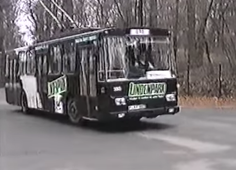 Potsdam trolleybus with a great advert on duty